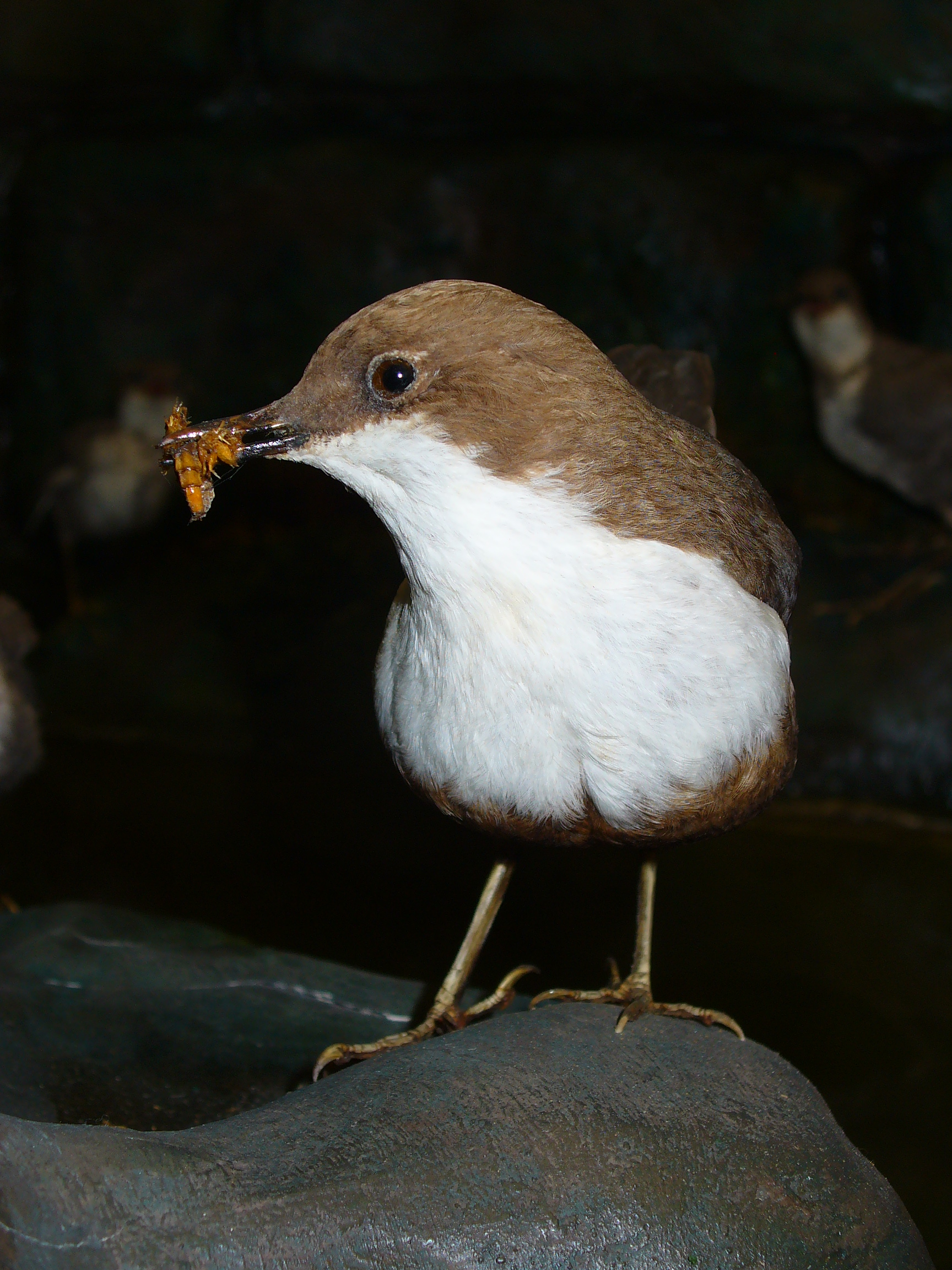 Cinclus cinclus, Cinclidae, White-throated Dipper; Staatliches Museum für Naturkunde Karlsruhe, Germany.